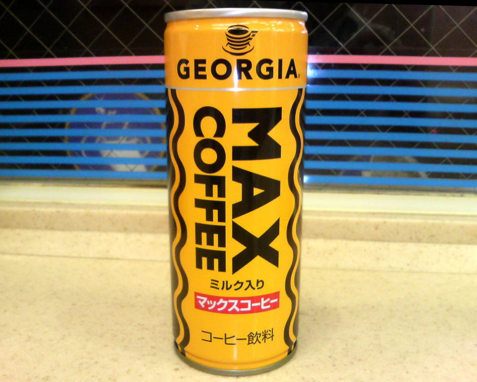 MAX COFFEE. canned coffee., Chiba (prefecture).